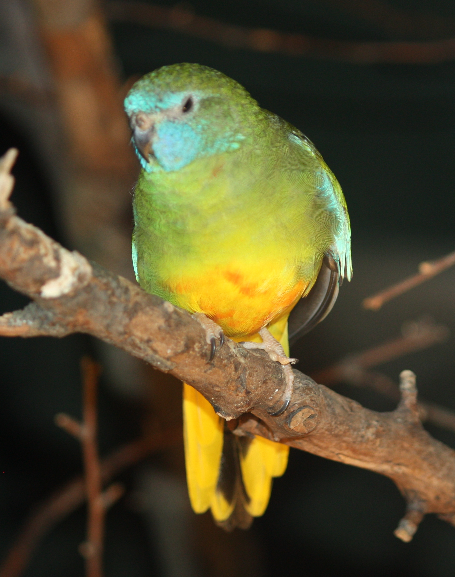 Female Scarlet-chested Parrot Neophema splendida at Cincinnati Zoo